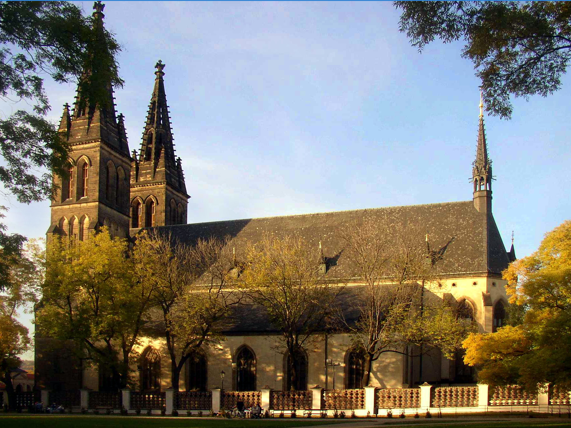 SS Peter and Paul church, Vyšehrad, Prague, Czech Republic Photo taken by Miaow Miaow in October 2005, PD-self